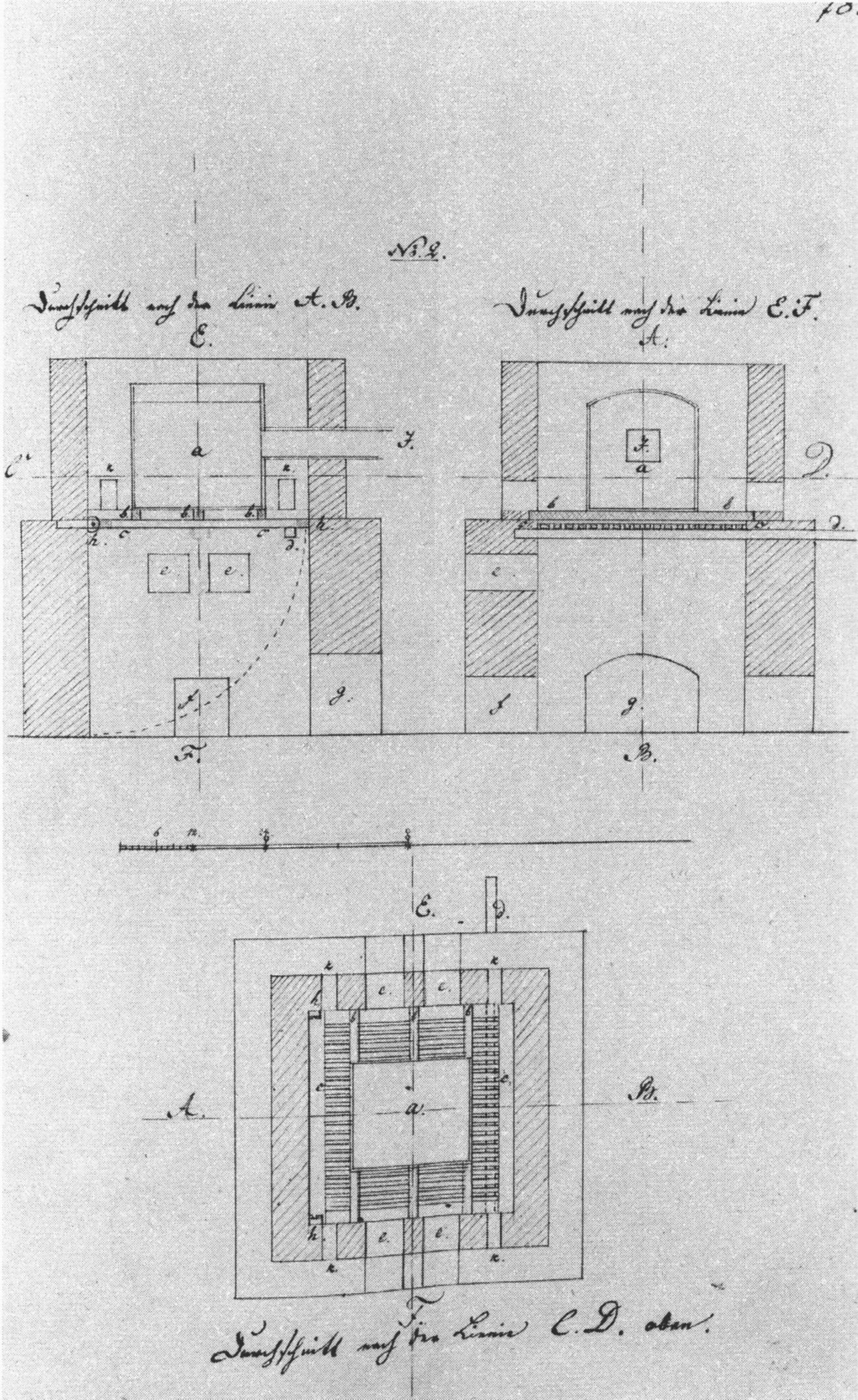 Technical drawing of a kiln by Georg Friedrich Kersting.